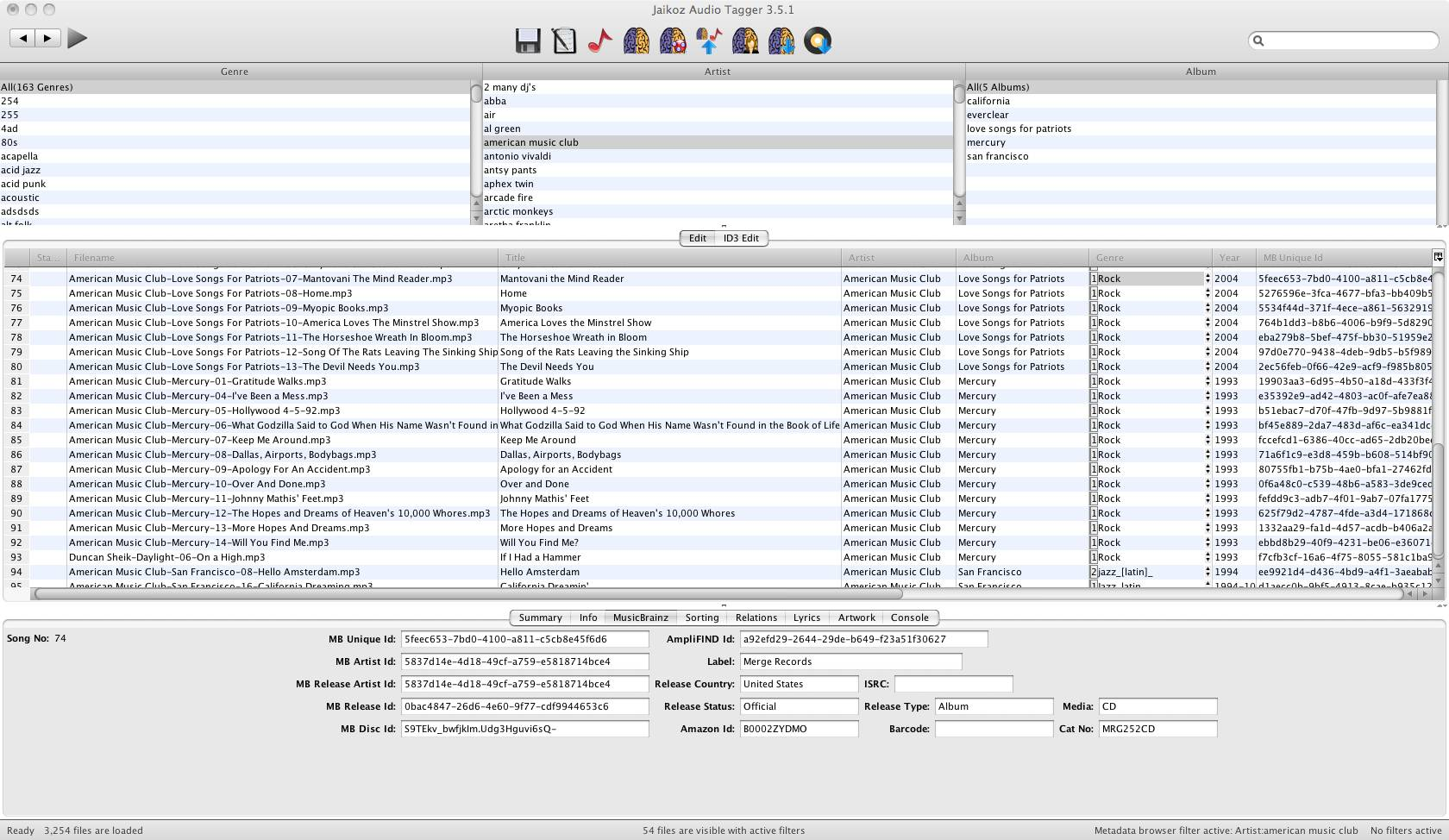 Screenshot of Jaikoz Music Tagger